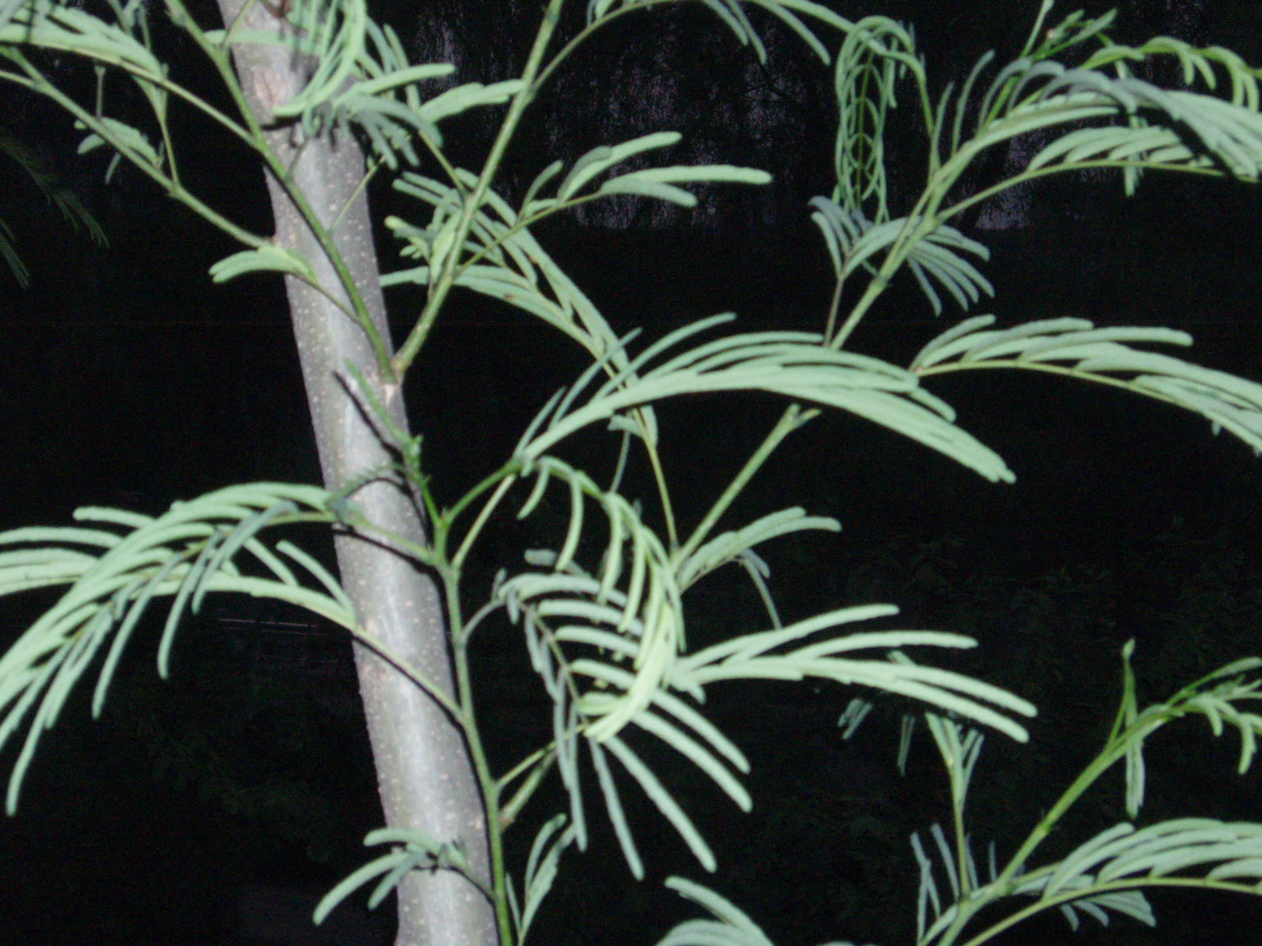 The tree's leaflets close slowly at night